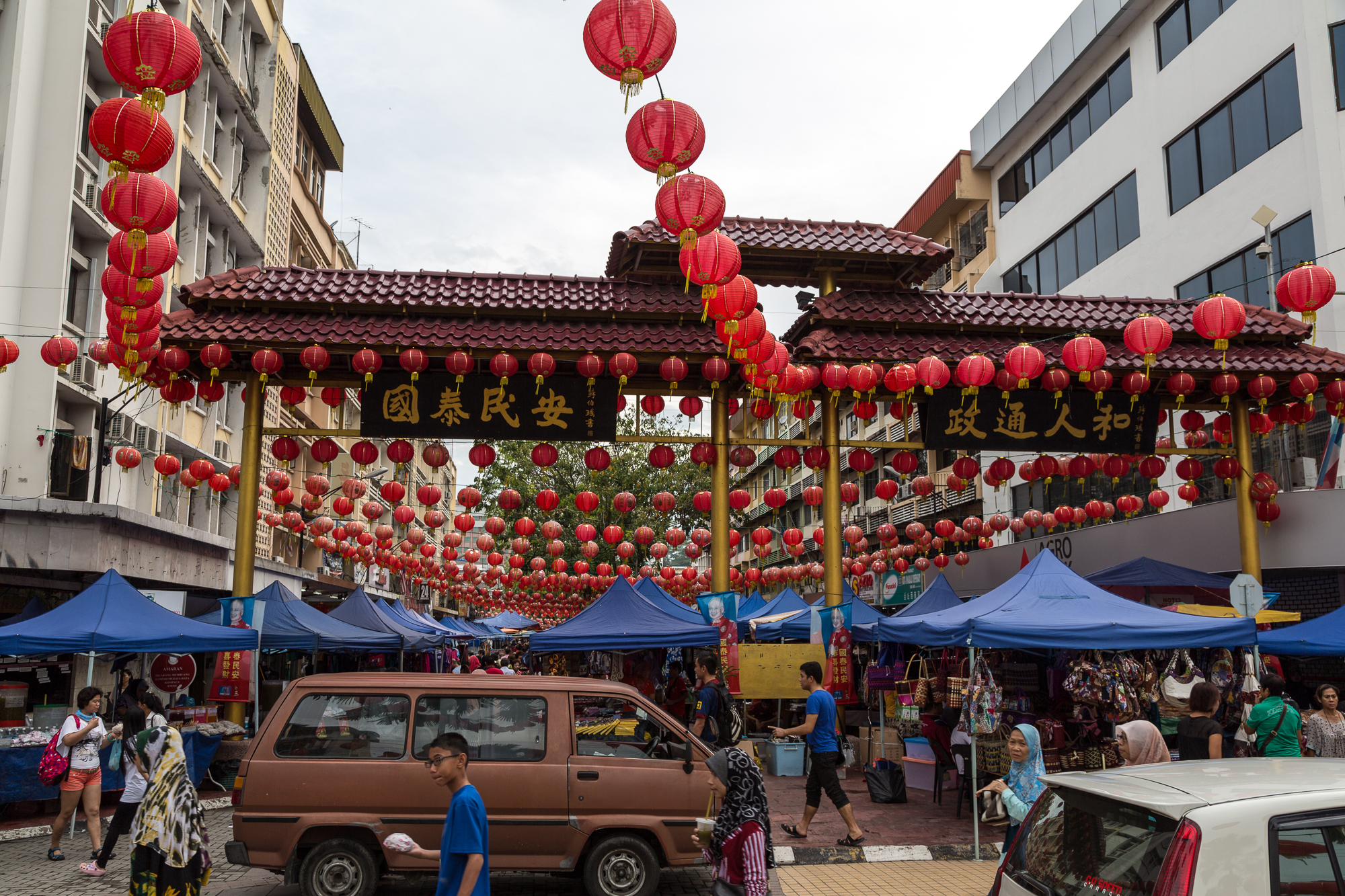 Kota Kinabalu, Sabah: Sunday market at Gaya street during Chinese New Year Celebration 2013